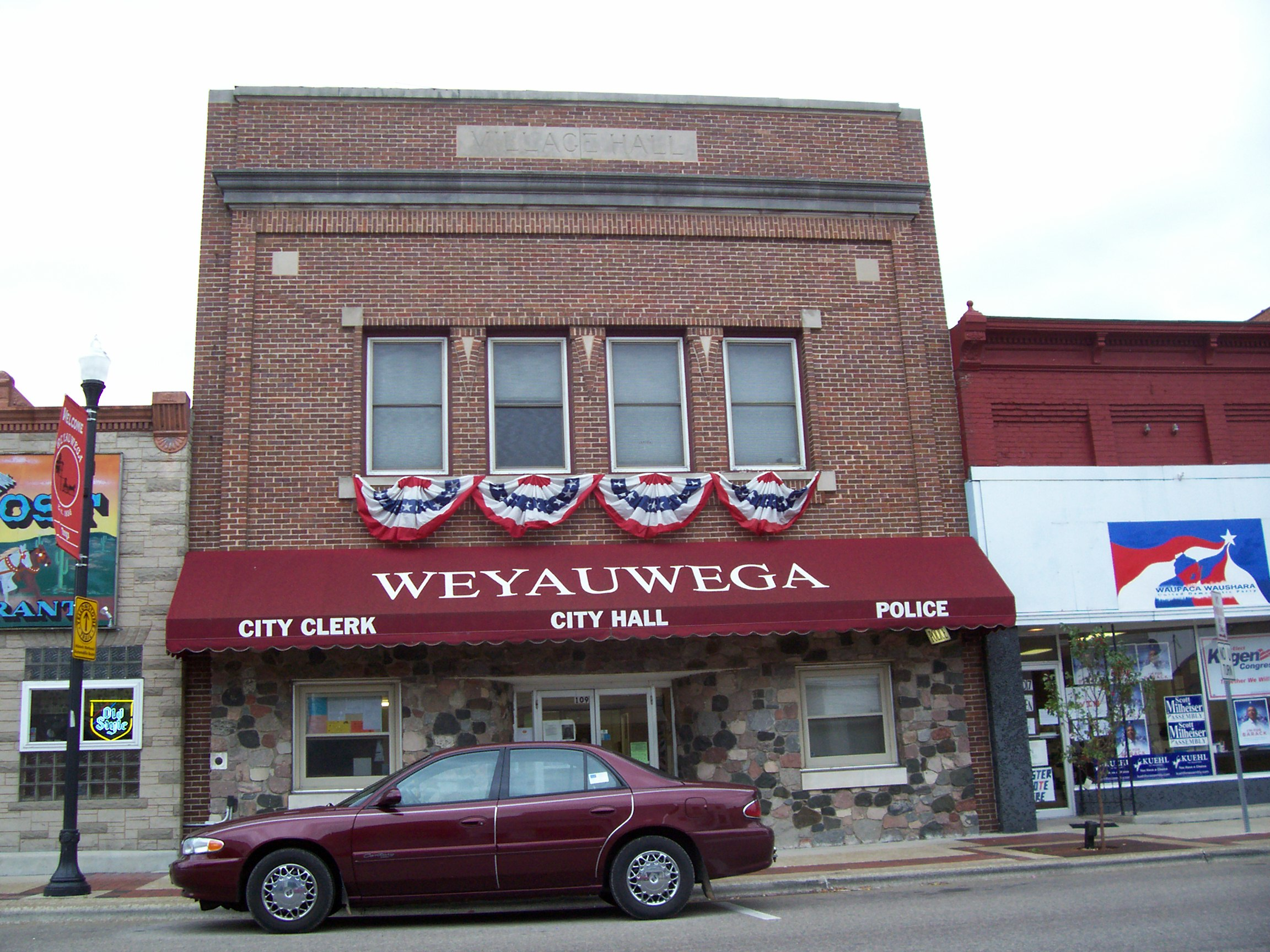 The city hall for Weyauwega, Wisconsin in downtown along the Yellowstone Trail (sign pictured).